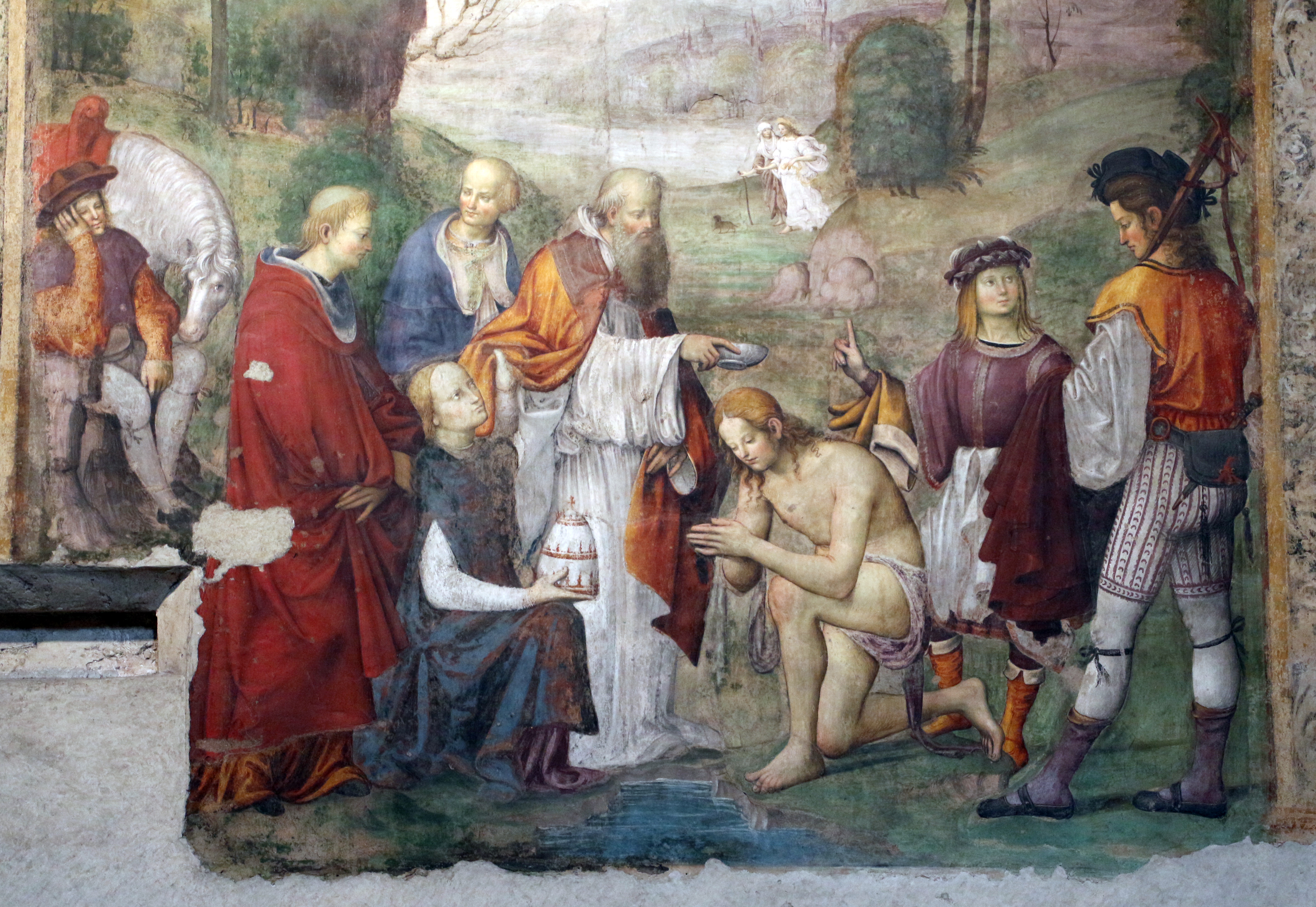 Santa Cecilia oratory (Bologna)